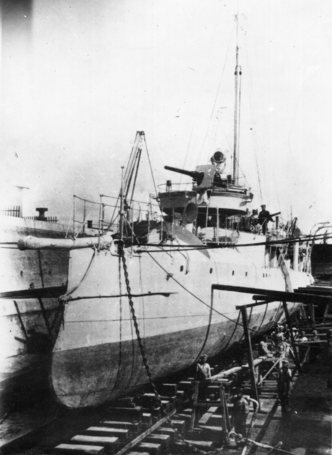 Imperial Russian topedo boat Grozovoy or Vlastnyy.